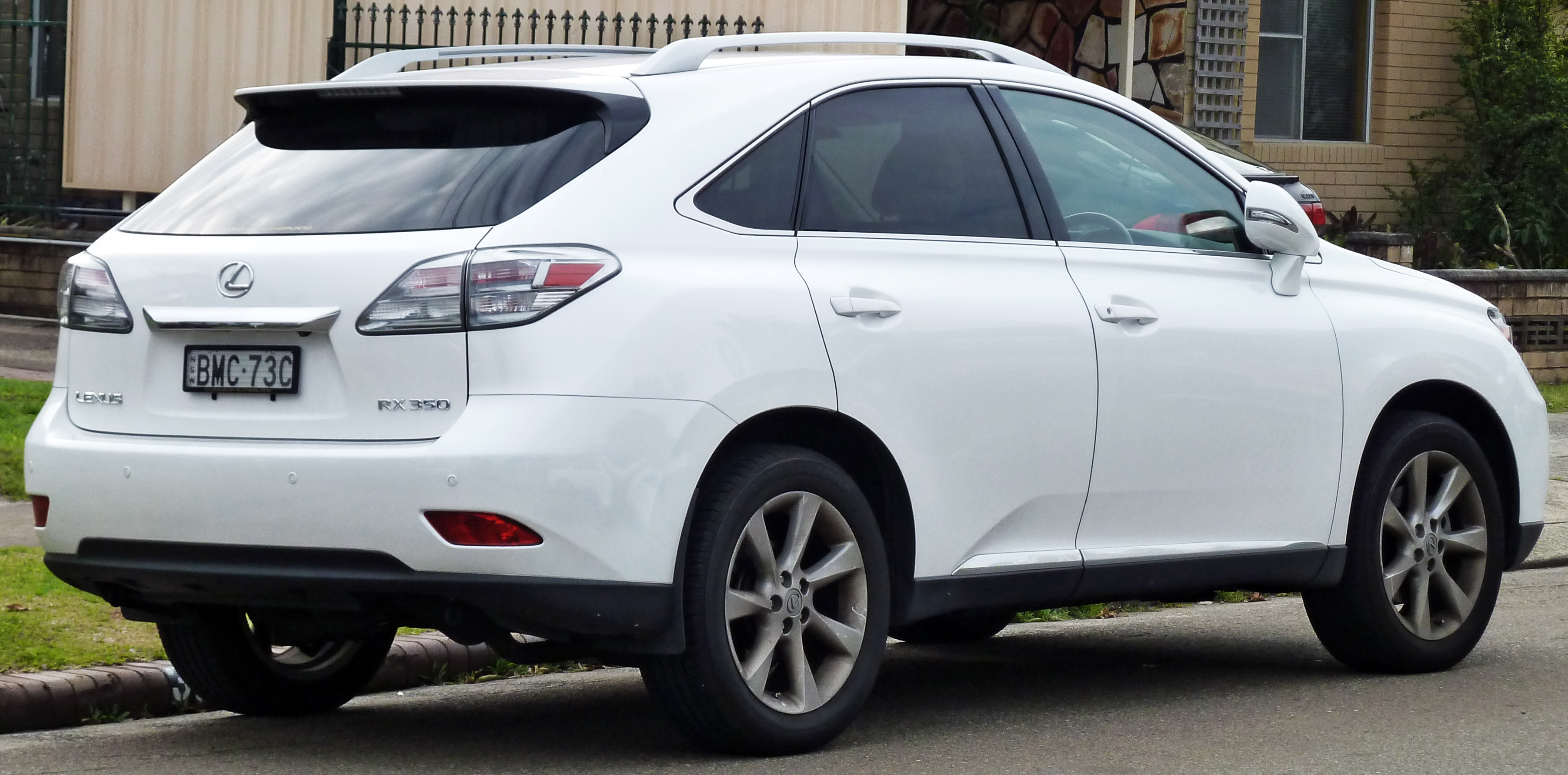 2009–2010 Lexus RX 350 (GGL15R) Sports Luxury wagon. Photographed in Sans Souci, New South Wales, Australia.